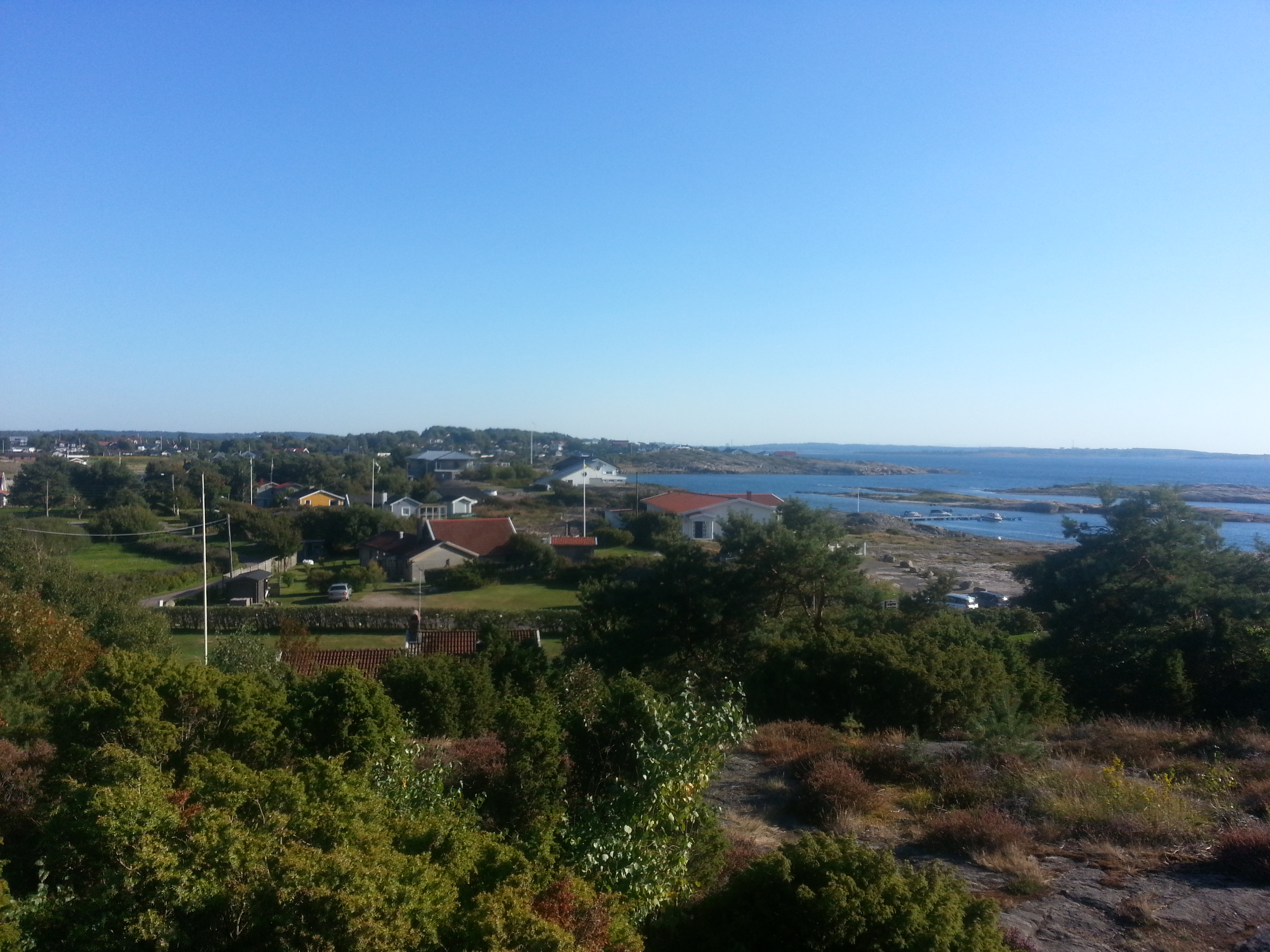 View of Åsa from Löftadalens Folkhögskola's mess hall.